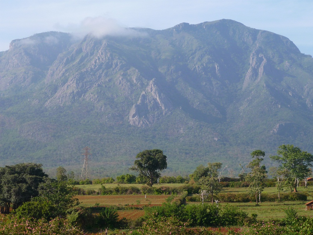 Nilgiris